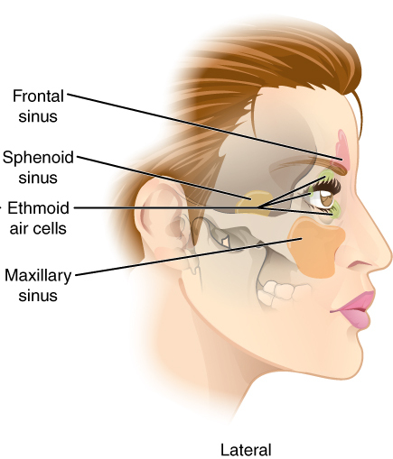 Based upon